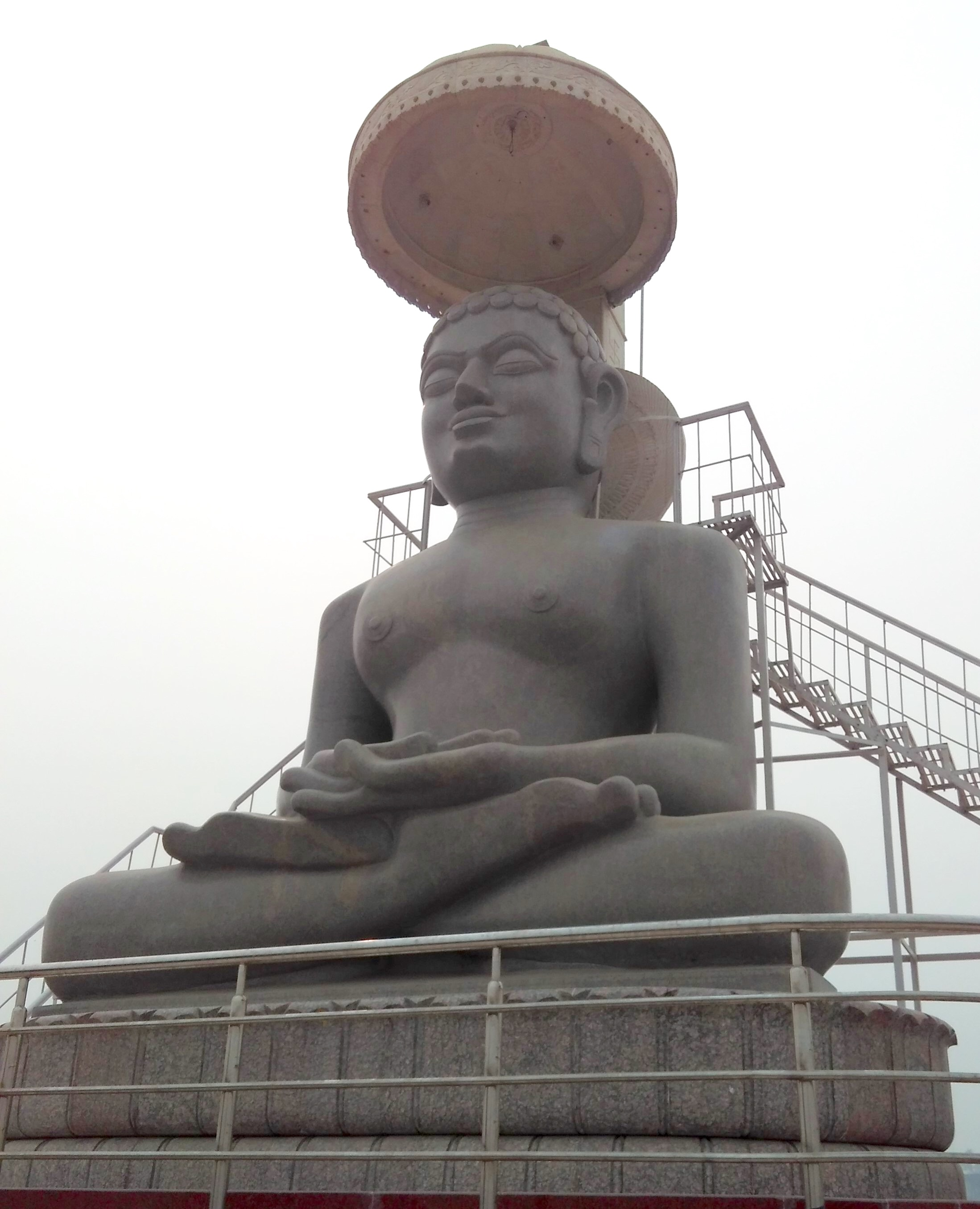 18 feet Image of Jambuswami ji, the last kevali (omniscient being) of the present half cycle of time.